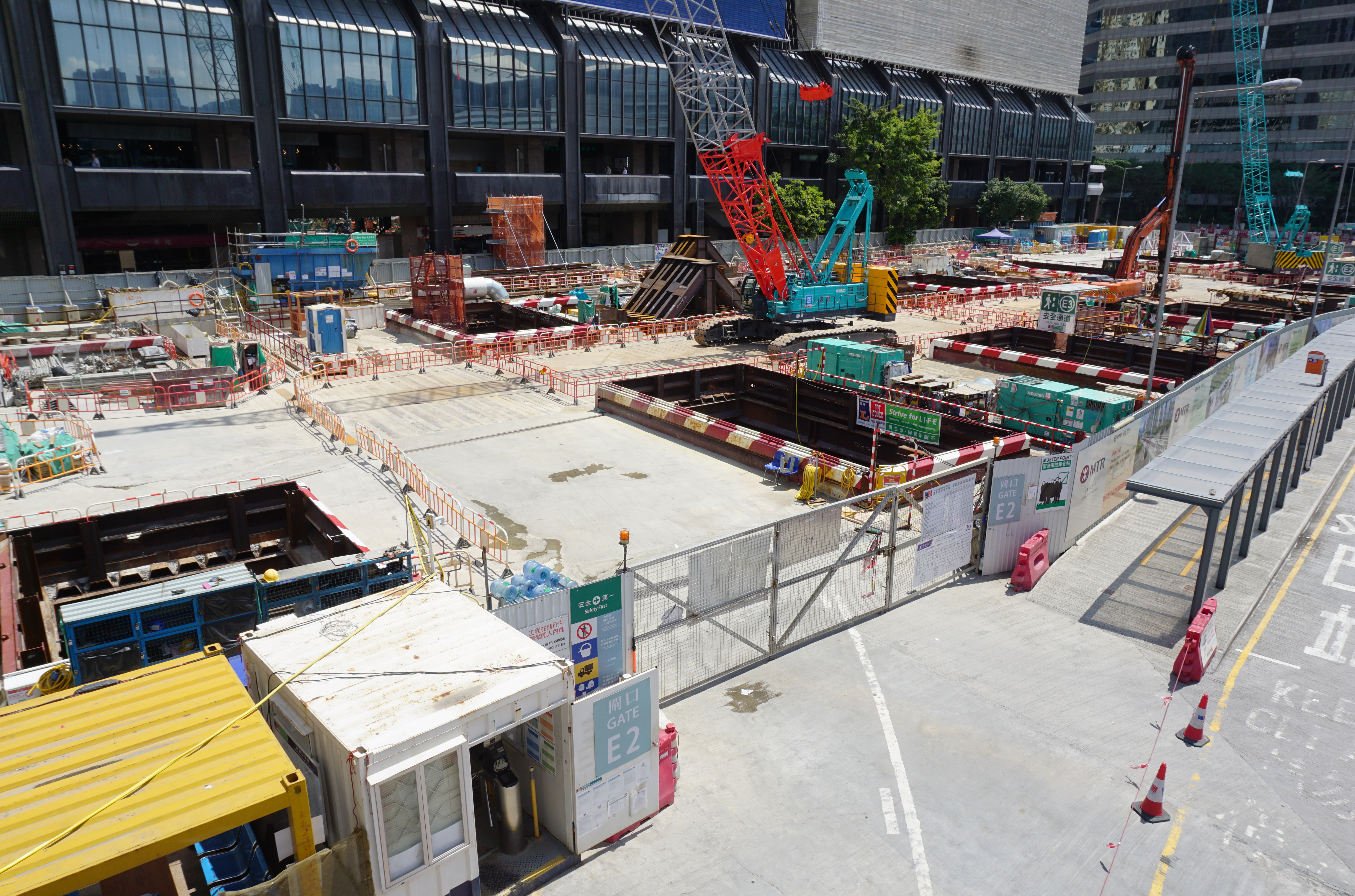 Exhibition Station in Wan Chai, Hong Kong.